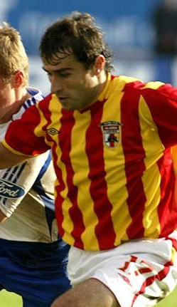 Georgy Bazaev in action for FC Alania